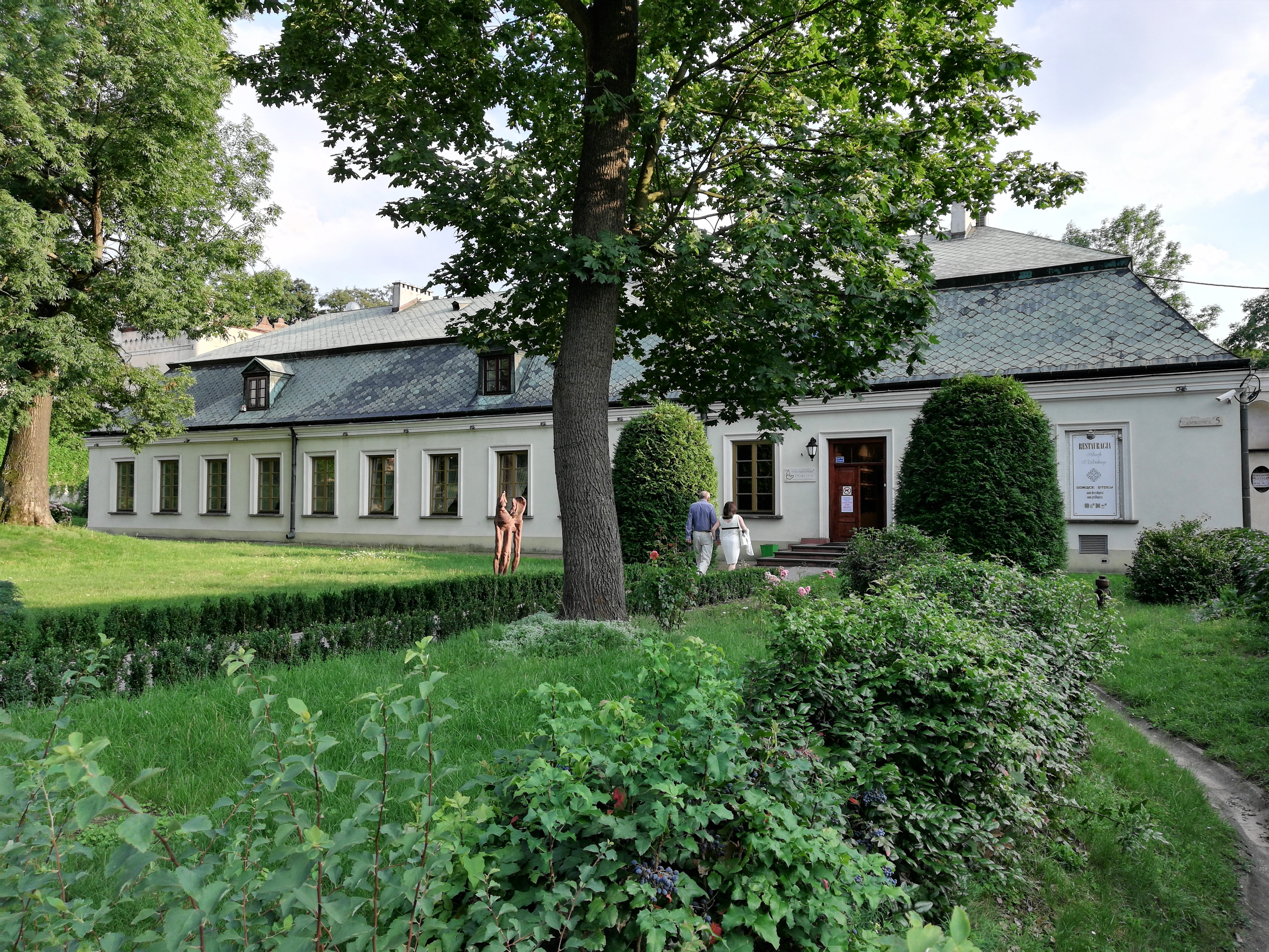 Palace of Tomasz Zieliński in Kielce, at 5 Zamkowa Street - front of the building from the north.